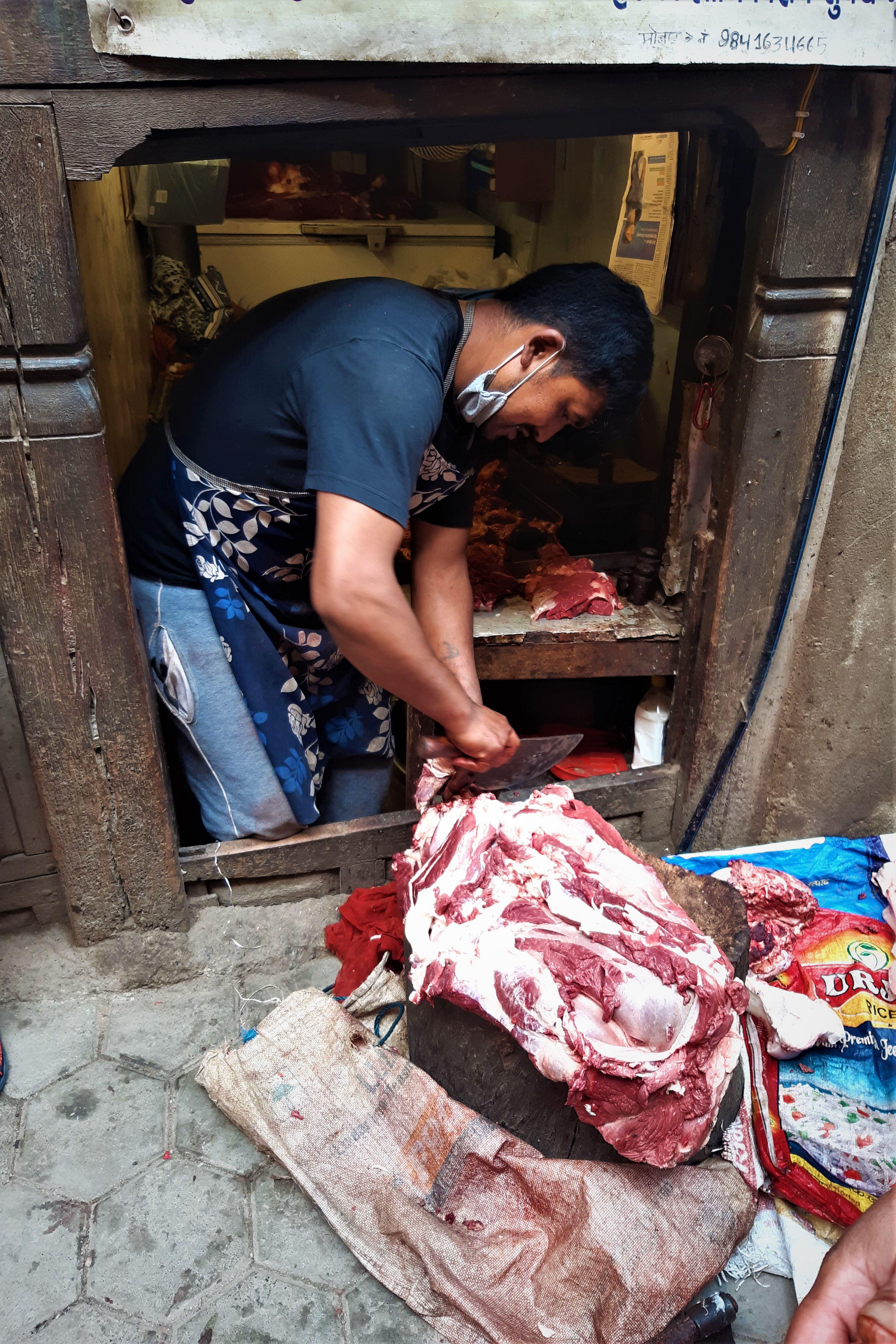 A Butcher cutting buffalo meat.